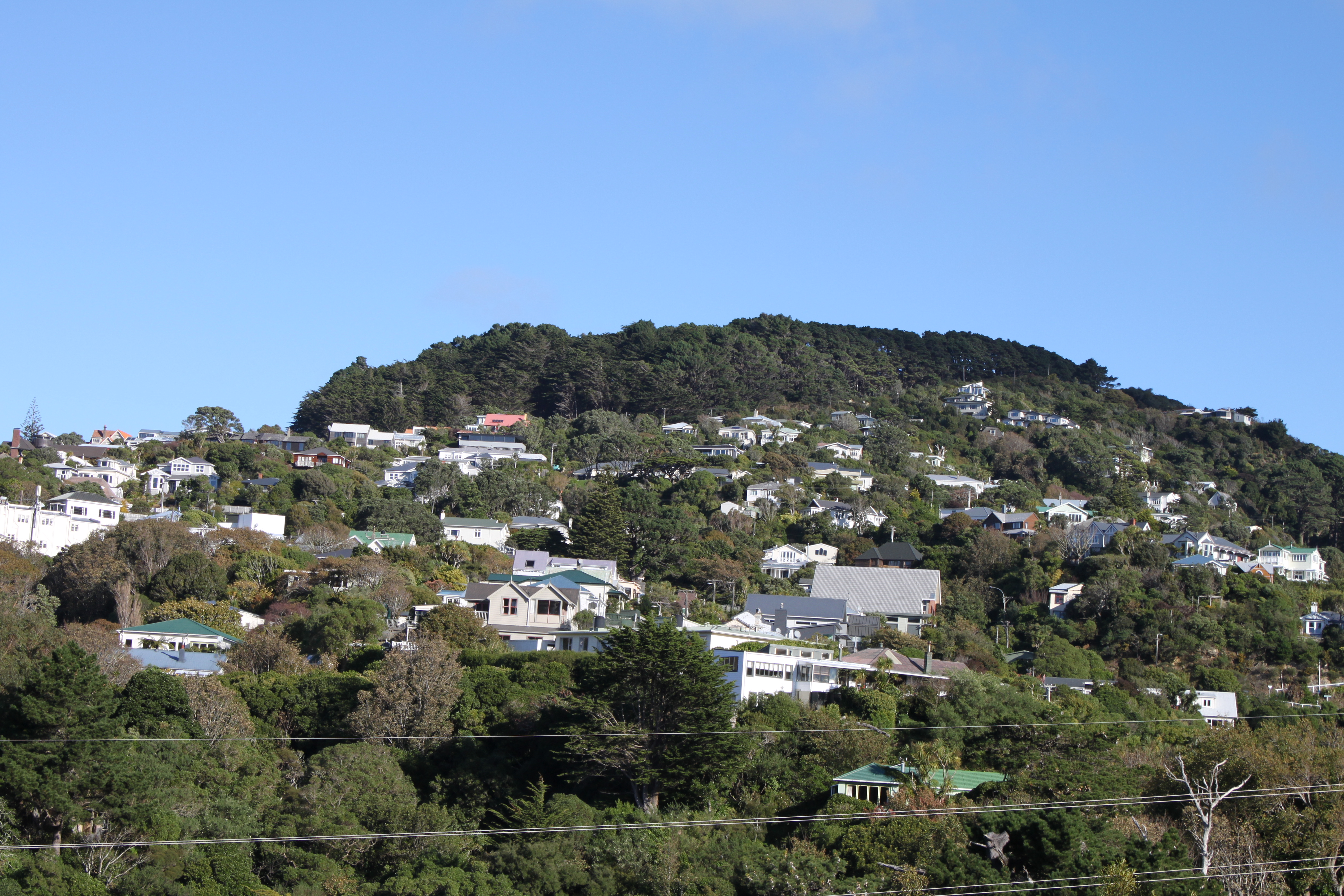 Wadestown and Tinakori Hill, Wellington, New Zealand - taken from the Ngaio Gorge Road